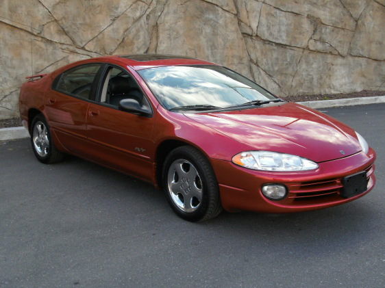 2001 Dodge Intrepid R/T